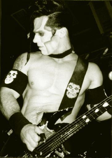 Doyle Wolfgang von Frankenstein (The Misfits)